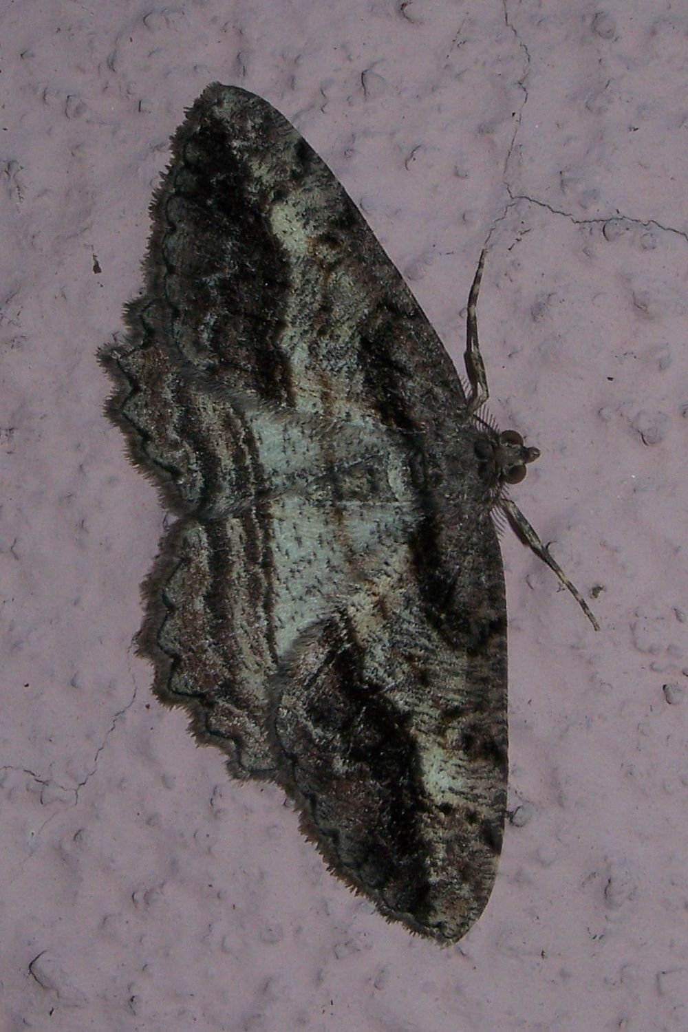 Brownlined Looper. Male